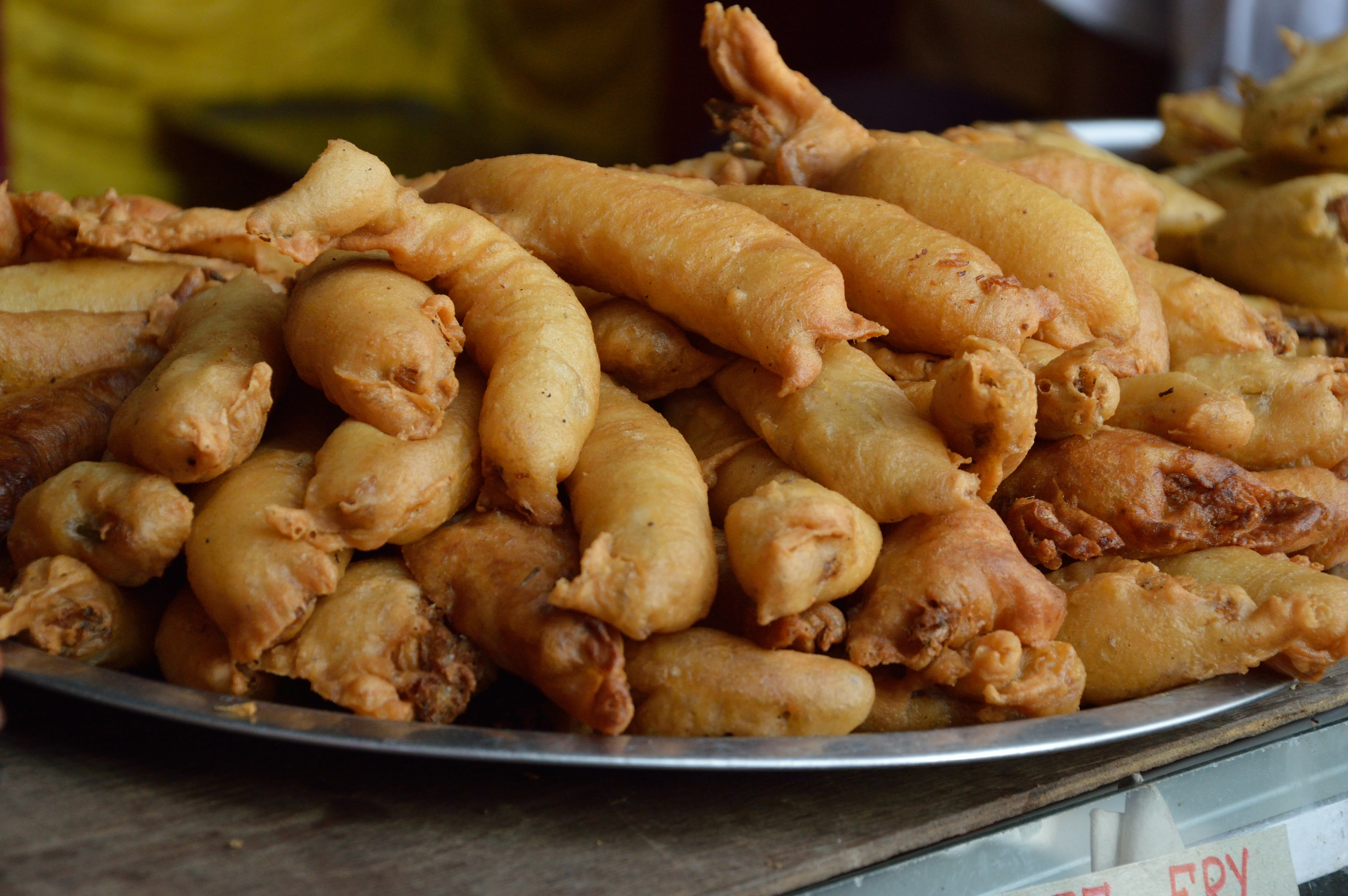 Photographed at greater Kolkata.